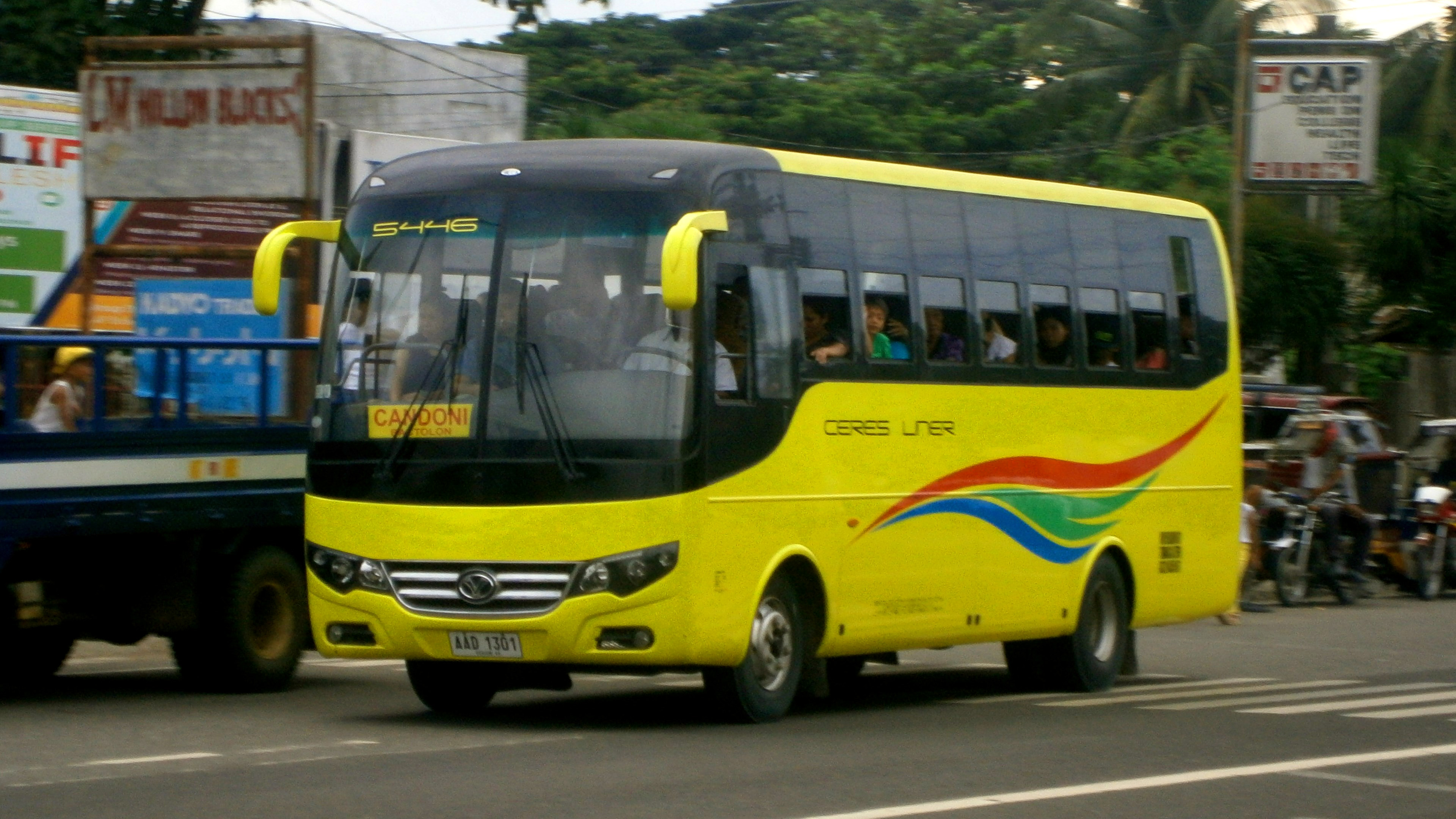 A Ceres Liner unit.